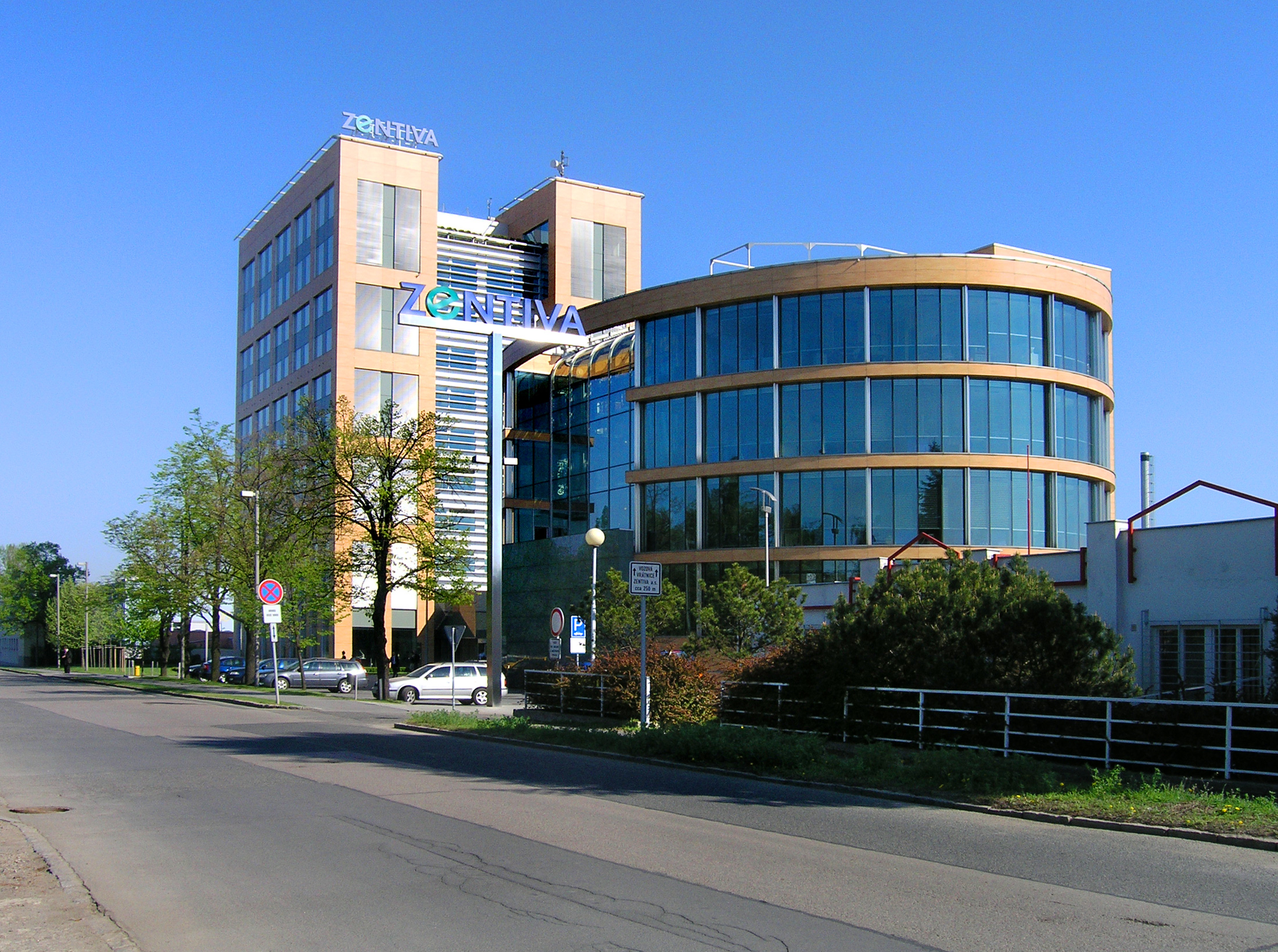 Pharmaceutical industry in Dolní Měcholupy, Prague